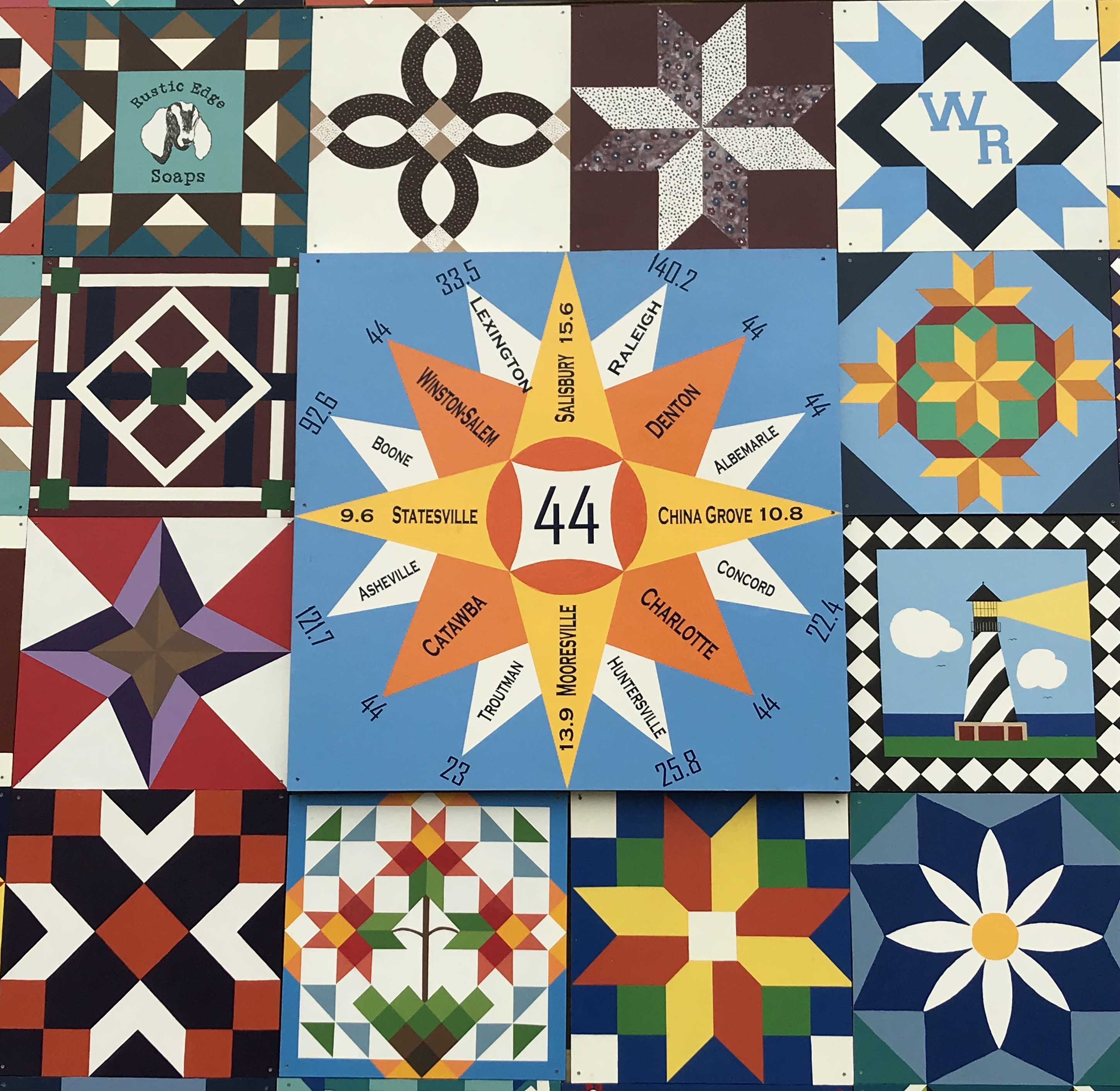 A barn quilt square tribute to Bear Poplar, North Carolina, historically known as Forty-Four because it was located 44 miles from Charlotte and Winston-Salem.